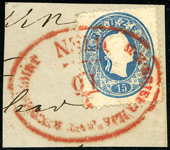 Austrian KK issue 1861, 15 kr on fragment, oval red cancelled K.K. BRIEF-FILIALAMT RECOMANDIRT (red ink for registered mail in WIEN). Mueller type RzO-fy, year erased on issue III Michel #22.